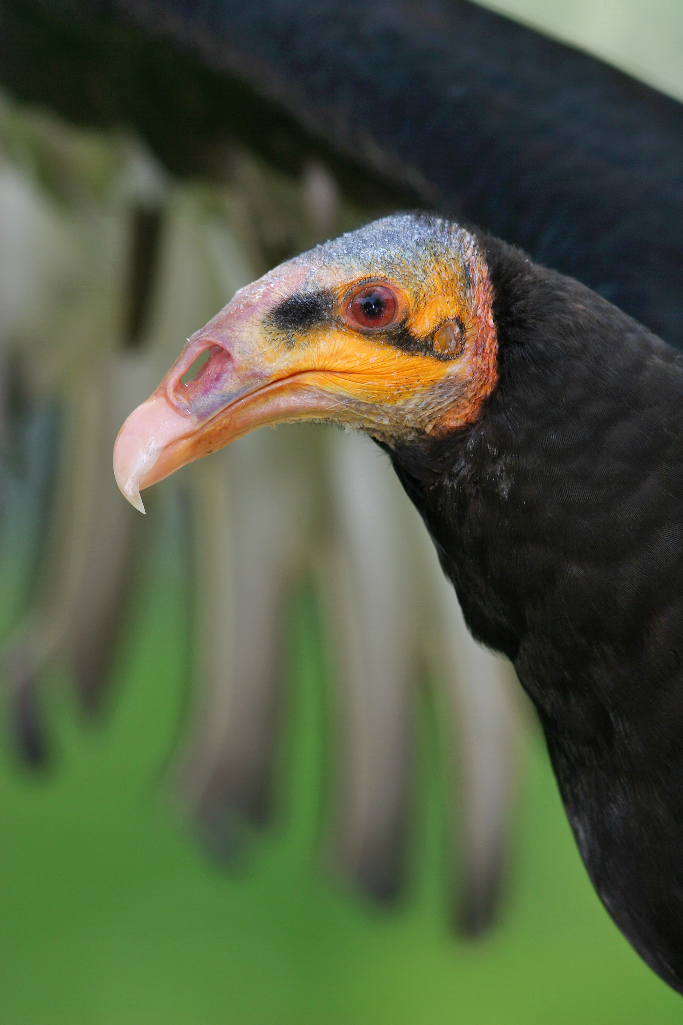 Lesser Yellow-headed Vulture at Amsterdam Zoo, Nethelands.